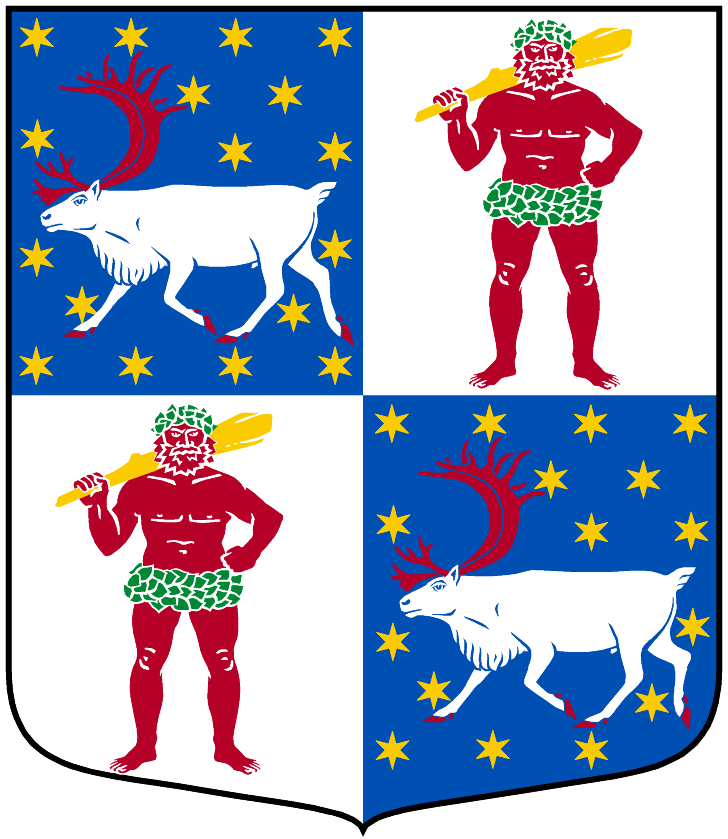 Coat of arms of the county of Norrbotten, Sweden. Painted by Vladimir A. Sagerlund when he was the heraldic artist at the National Archives of Sweden (Riksarkivet). This representation of a coat of arms is potentially different from the one used by the armiger (municipality or organisation) in question. = ⇑“Sable, a lionrampant or” This coat of arms was drawn based on its blazon which – being a written description – is free from copyright. Any illustration conforming with the blazon of the arms is considered to be heraldically correct. Thus several different artistic interpretations of the same coat of arms can exist. The design officially used by the armiger is likely protected by copyright, in which case it cannot be used here.Individual representations of a coat of arms, drawn from a blazon, may have a copyright belonging to the artist, but are not necessarily derivative works. Further information: Commons:Coats of arms and Template:Coa blazon